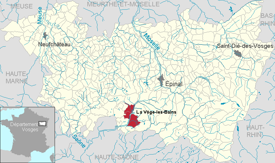 La Vôge-les-Bains in the department of Vosges, Grand Est, France